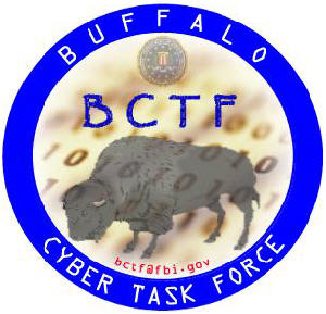 The Logo of the "BUFFALO CYBER CRIME TASK FORCE"